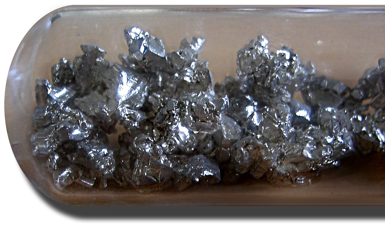 Pure calcium in a protective argon gas atmosphere.